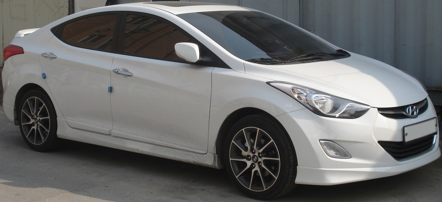 Hyundai Avante